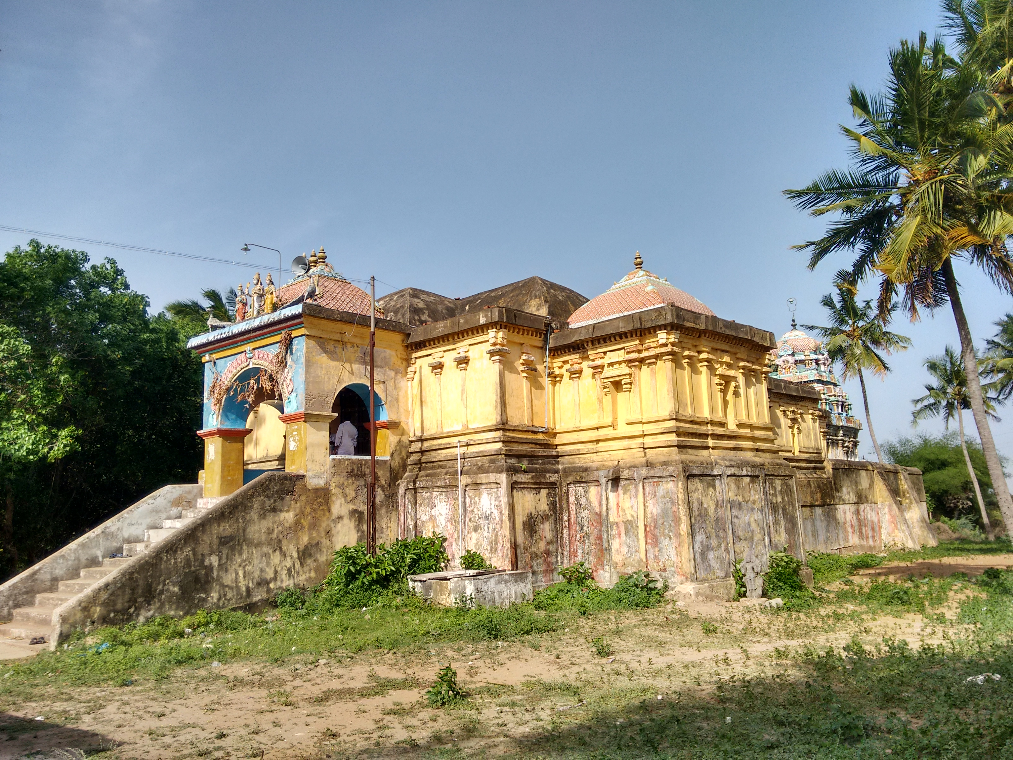 Kavalur murugan temple காவலூர் முருகன் கோயில்